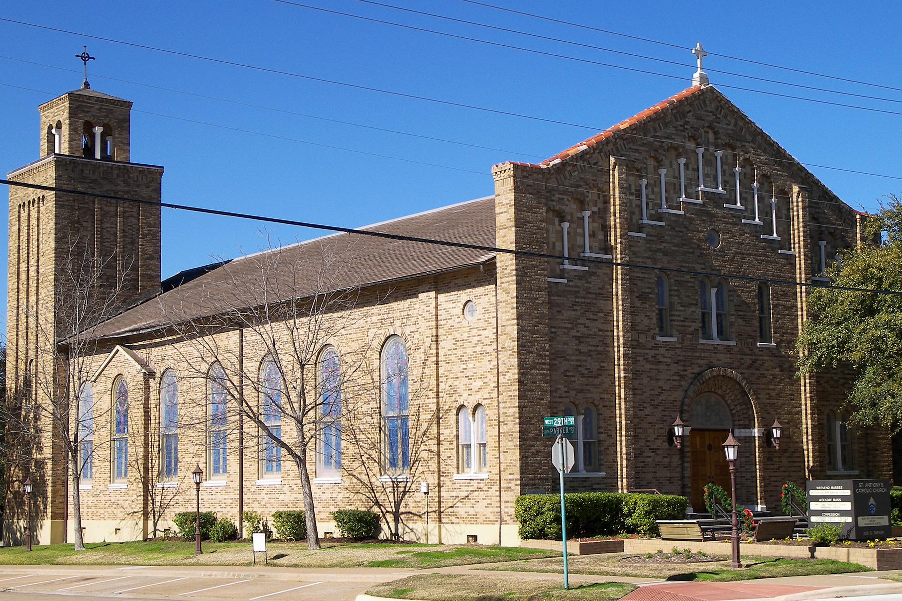 Saint Anthony's Catholic Church in Bryan, Texas, United States. It was listed on the National Register of Historic Places on September 25, 1987.